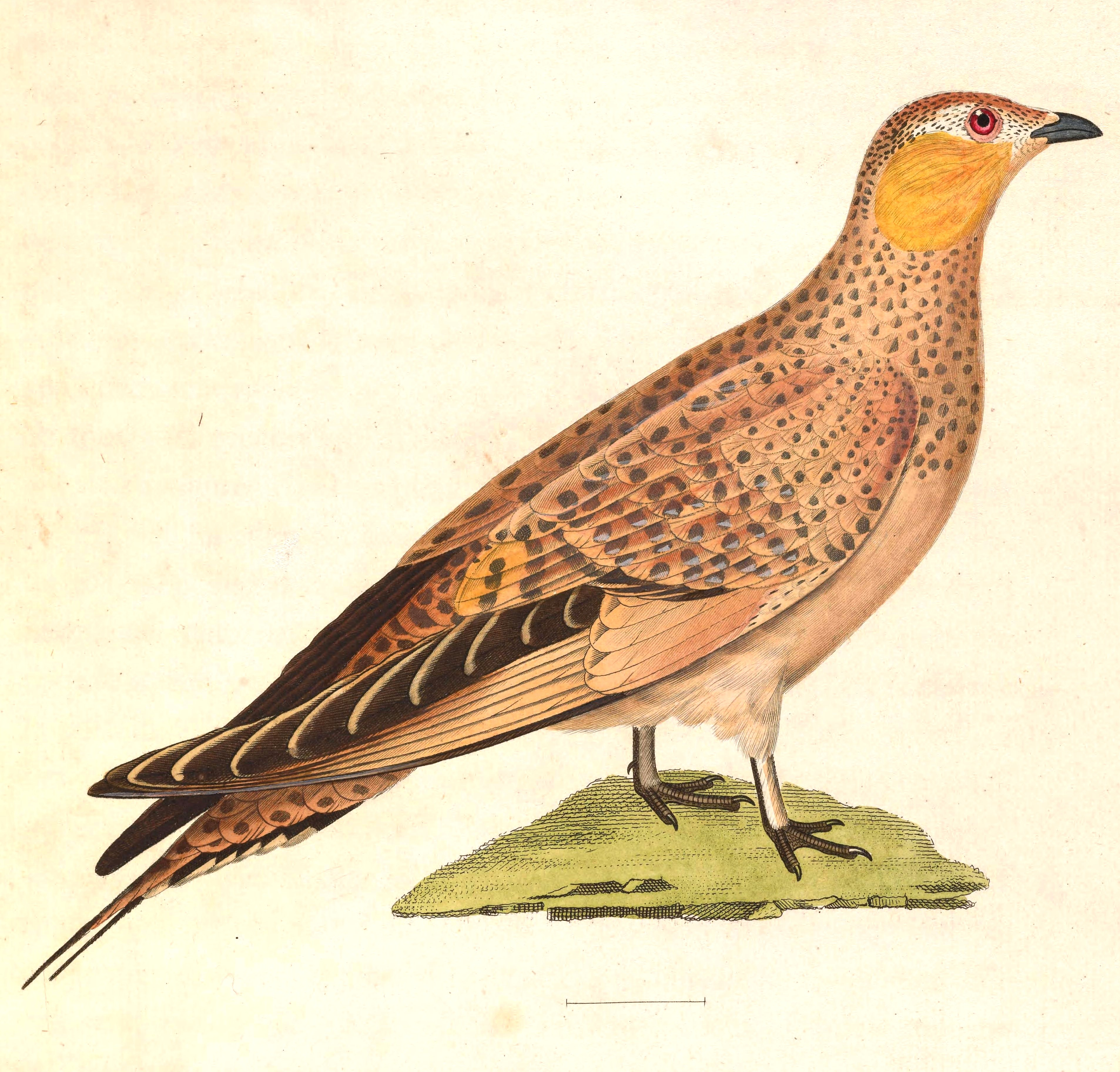 « Pterocles guttatus » = Pterocles senegallus (Spotted Sandgrouse) - adult female